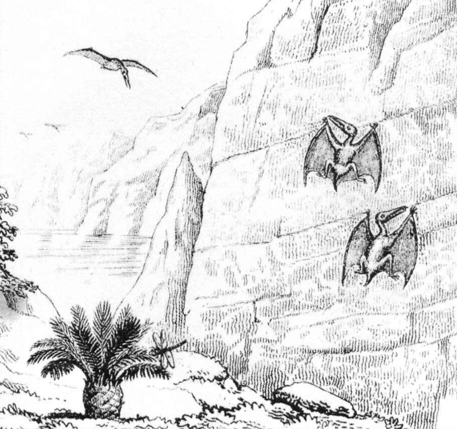 Drawing of pterosaurs by English naturalist William Buckland (1784-1856) in 1831. Buckland imagined pterosaurs hanging on cliffs.